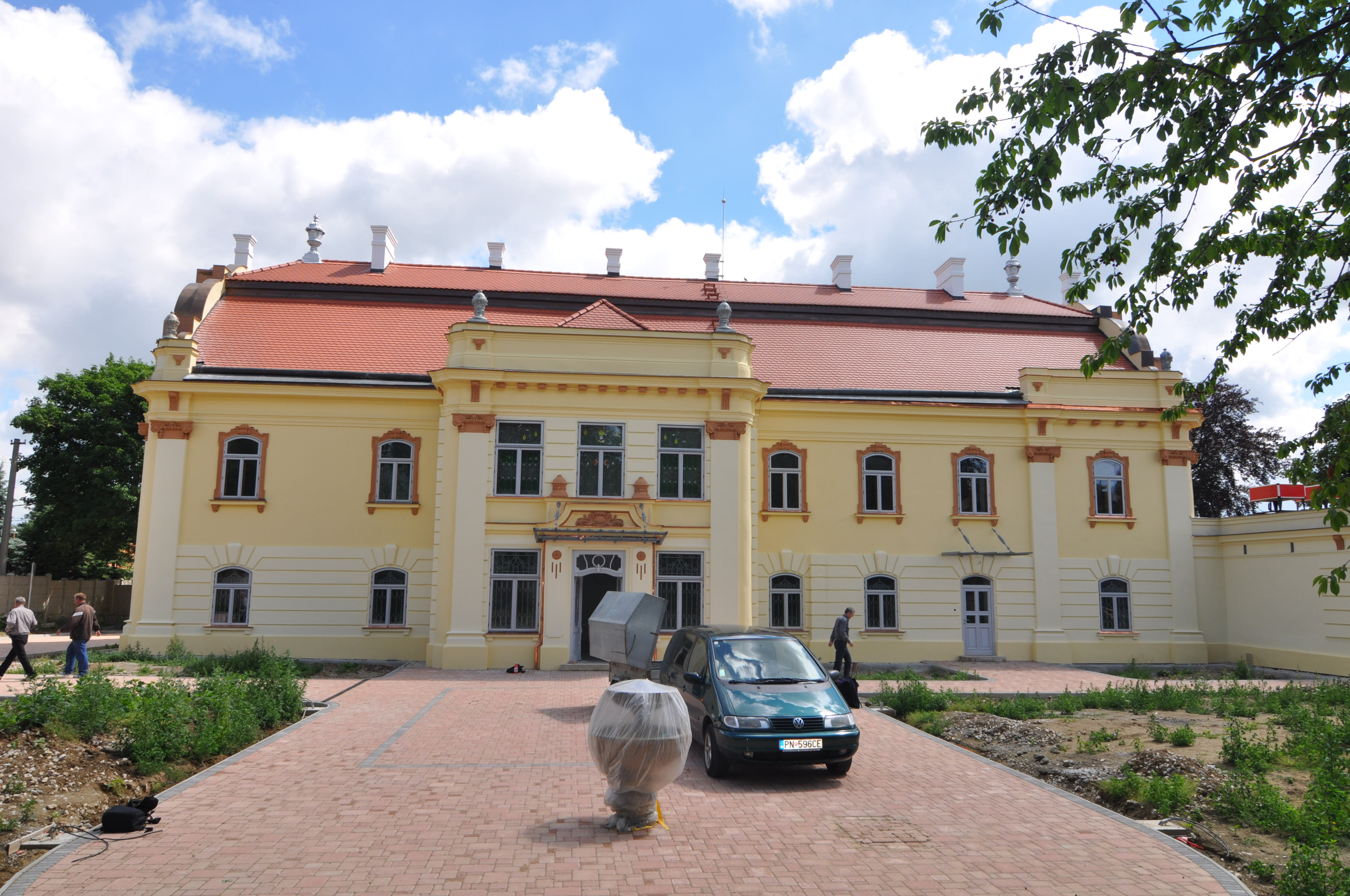 Sasinkovo castle from garden